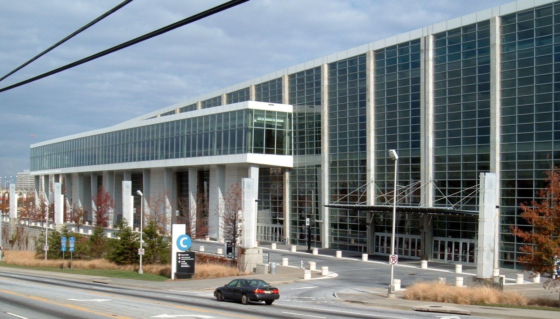 Georgia World Congress Center in Atlanta, GA, USA. Photo taken from Northside Ave.